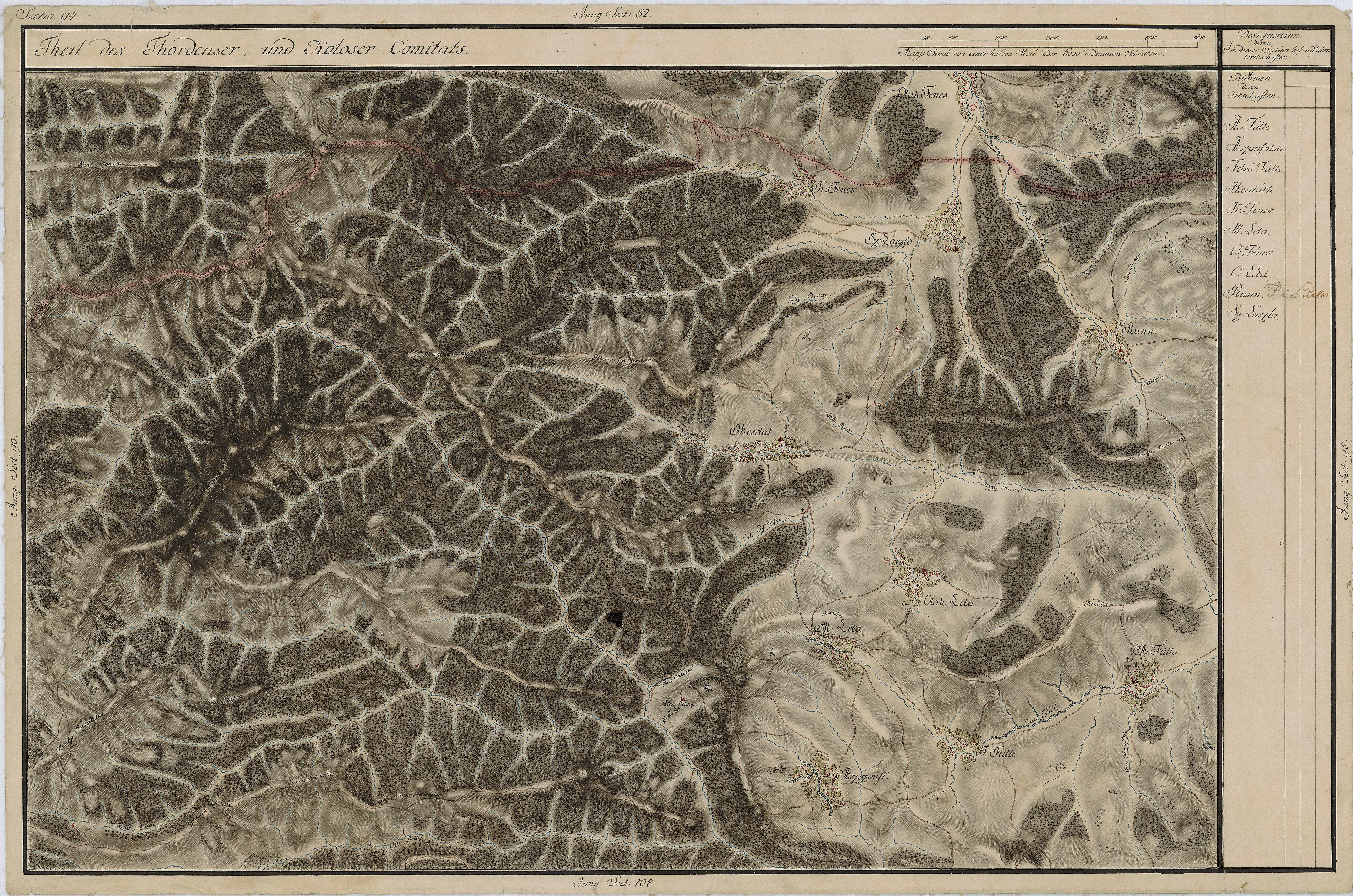 Grand Duchy of Transylvania, 1769-1773. Josephinische Landaufnahme pg.094